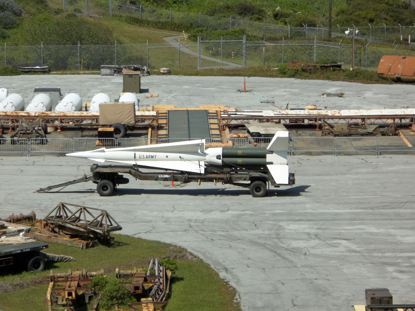 Nike missile on transporter, at SF88 base, Sausalito, california. Shot 1012